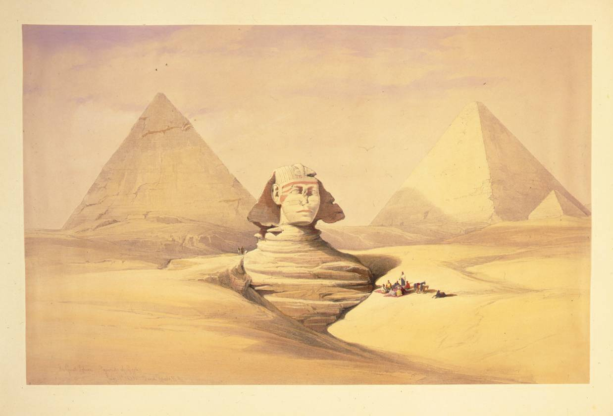 The Great Sphinx, pyramids of Geezeh July 17th 1839. lithograph. Published between 1846 and 1849.